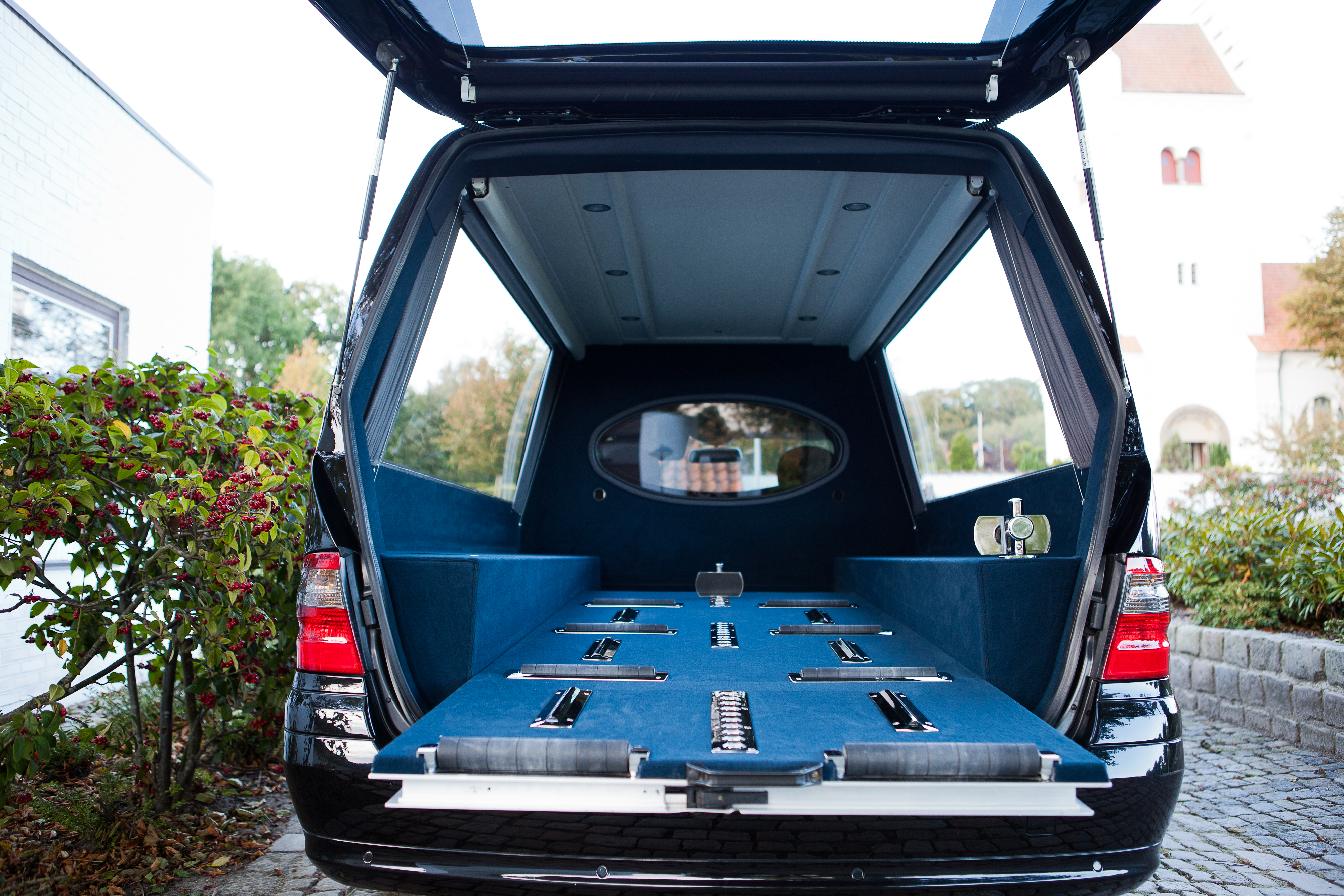 Inside a danish hearse.